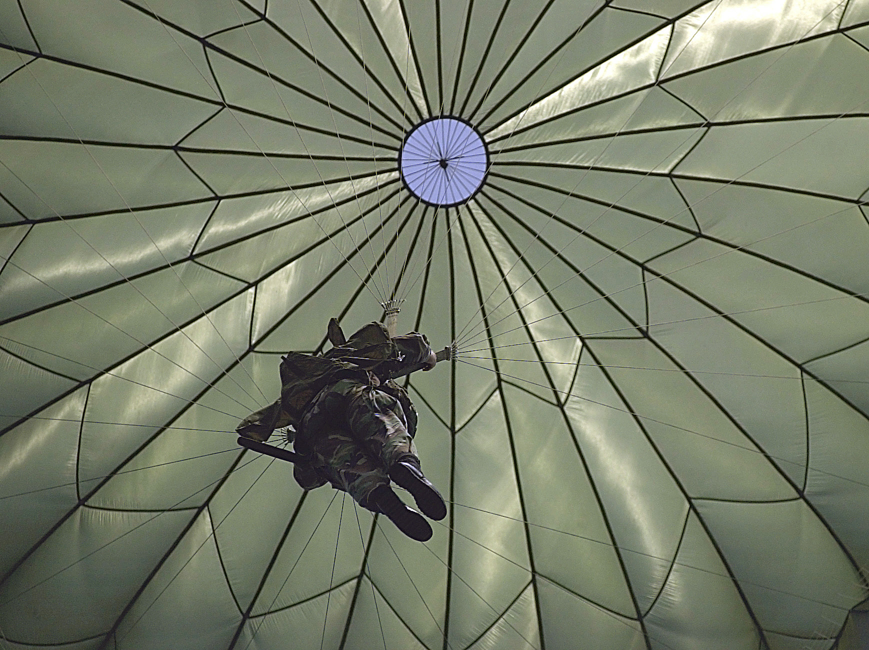 A member of the Army's 82nd Airborne Division Fort Bragg, North Carolina, parachutes to the ground at Charleston Air Force Base after jumping from a C-17 Globemaster III, 15th Airlift Squadron Charleston AFB, South Carolina. The jump is part of the 82nd Airborne Division AssociationÕs annual convention in downtown Charleston Aug. 8-12. 300 members of the 82nd exited the C-17s in six passes. "The jump is the keystone event," said Captain Terrance McGraw, USA, event coordinator and commander, Headquarters Company, 82nd Airborne Division Support Command, and Fort Bragg, North Carolina, "It is part nostalgia and here is how we do it today. We have the utmost respect for the World War II veterans who did this on D-Day, those who jumped in Korea, Vietnam and to this day. We do this to honor them."